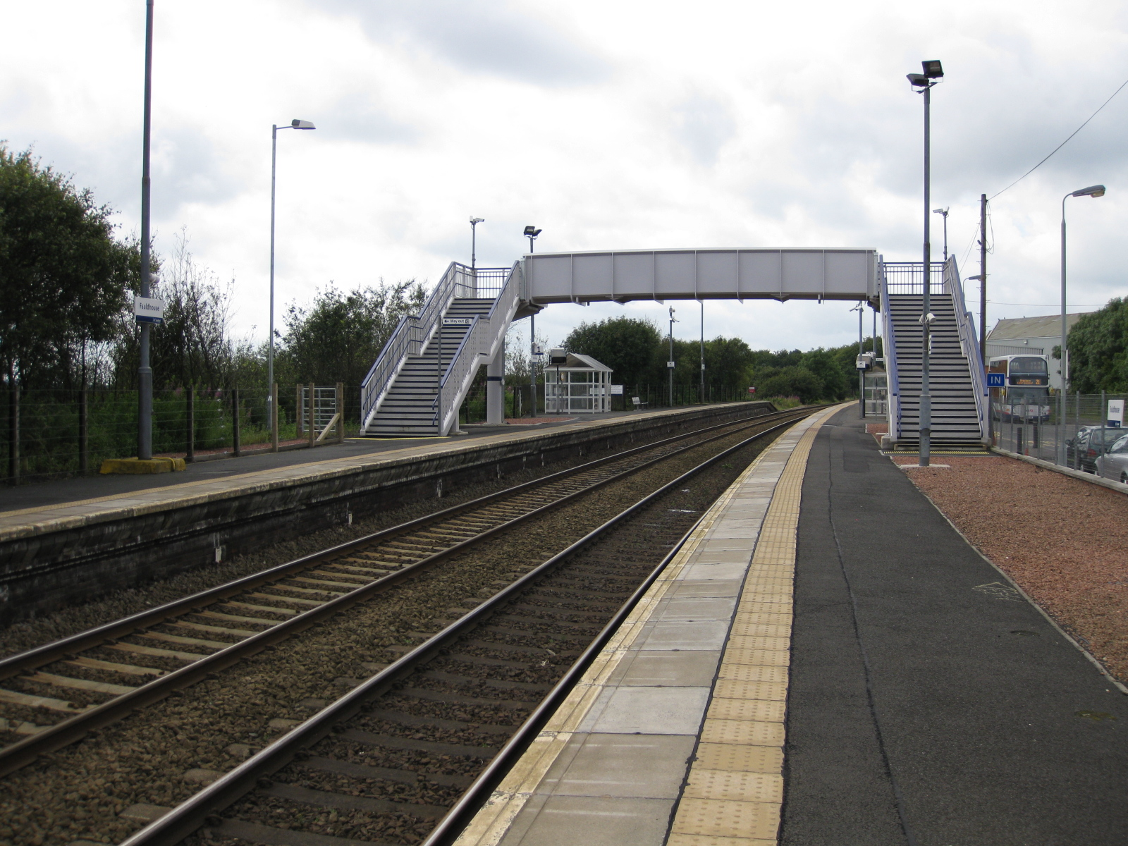 A view of Fauldhouse railway station, looking west. Picture taken 25 August 2012.